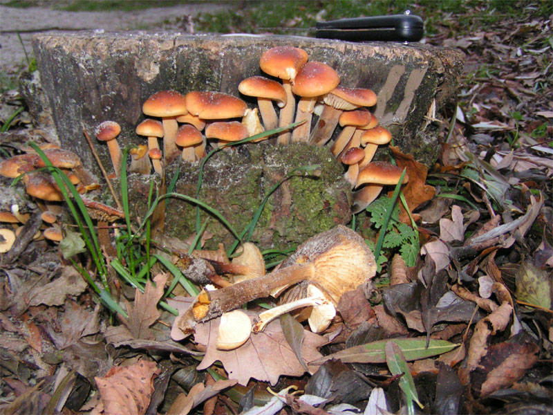 Enokitake, velvet foot, Flammulina velutipes - Marasmiaceae, in Munich at Olympiaberg (Germany)